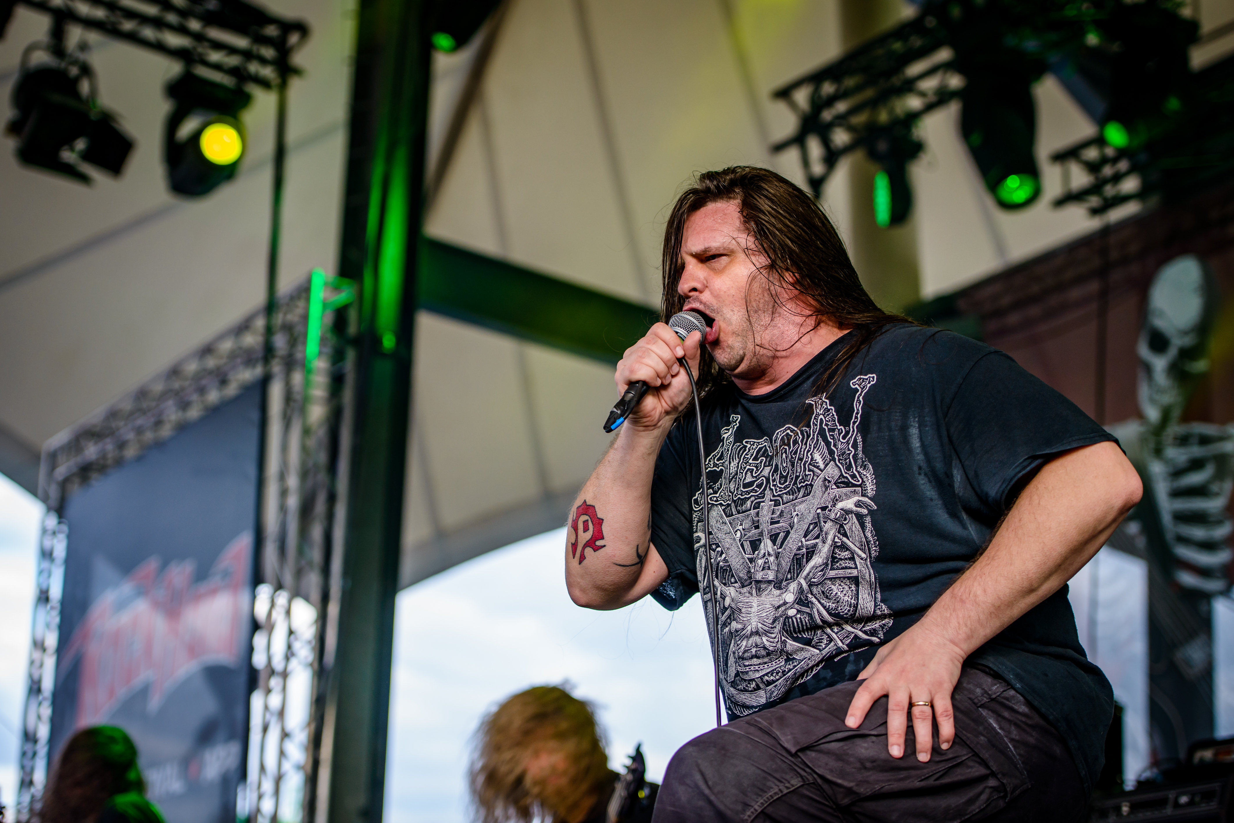 Cannibal Corpse; RockHard Festival 2016